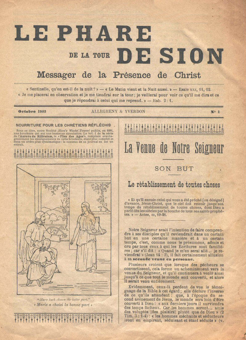 First Watch Tower issue in the French languages